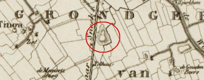 Map of Gasthuiswier